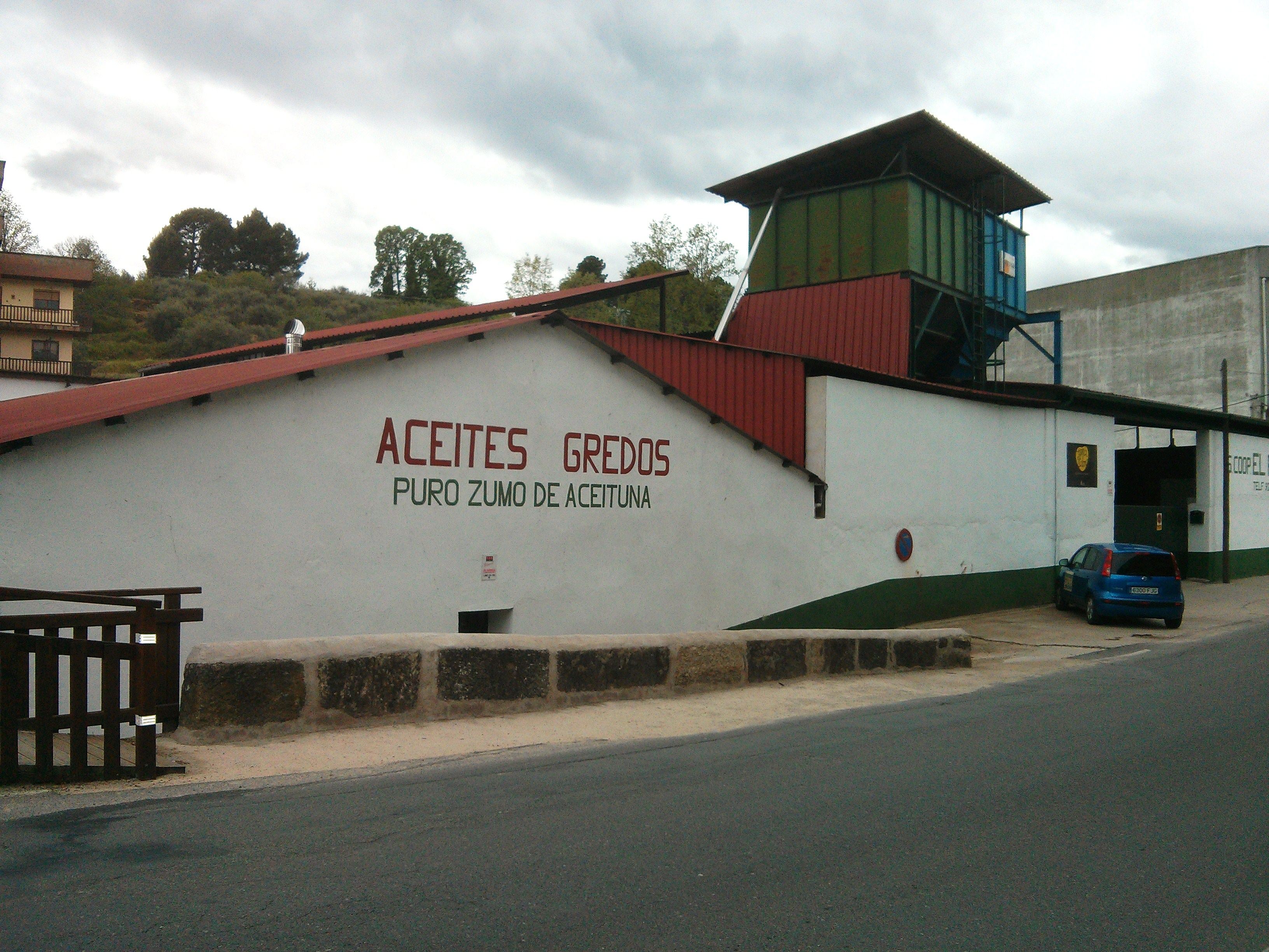 Cosecheros del Puente cooperative, Arenas de San Pedro, Ávila, Spain.